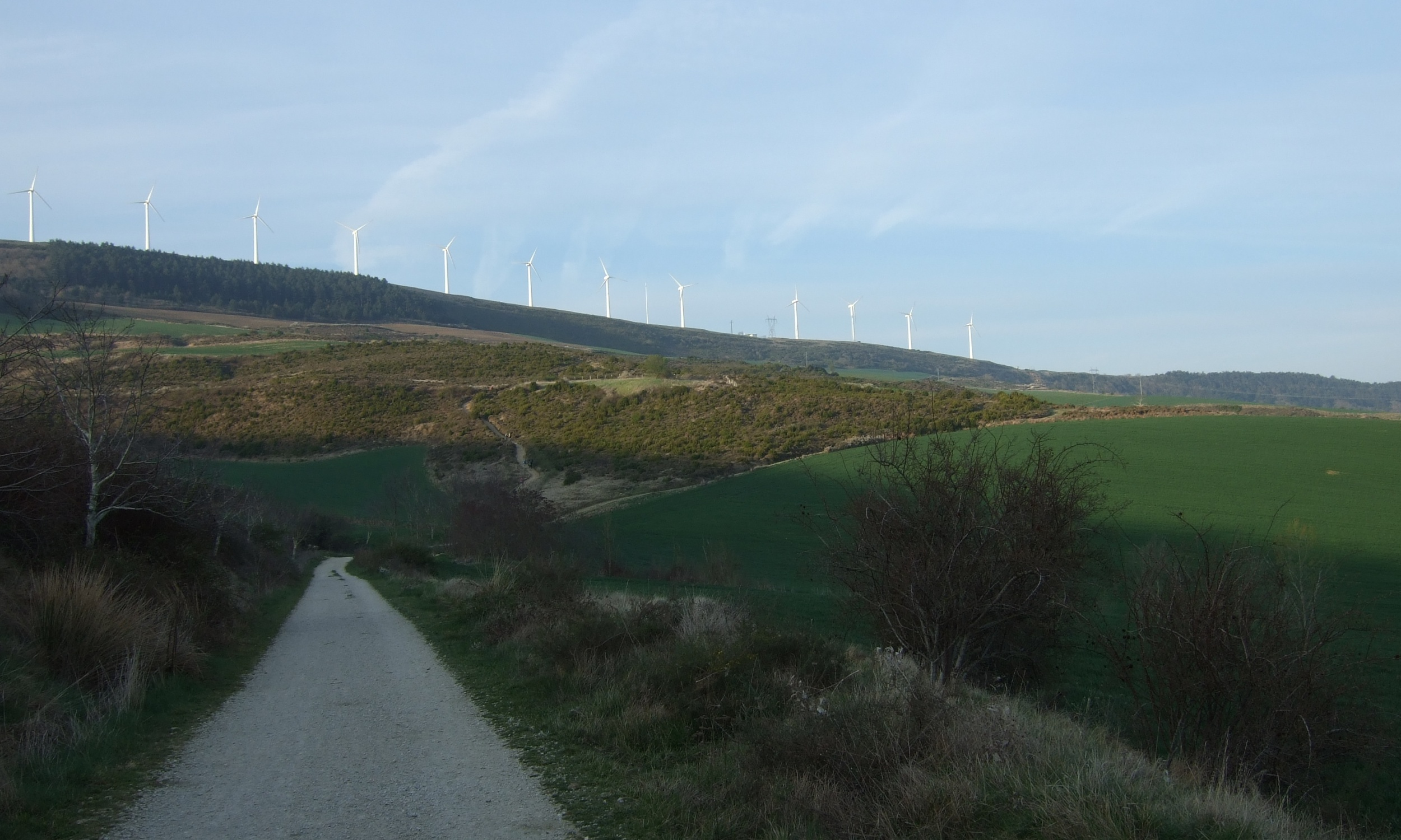 camino frances - Alto del Perdon